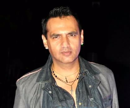 Marc Robinson at 'Elle India Graduates 2014' fashion show